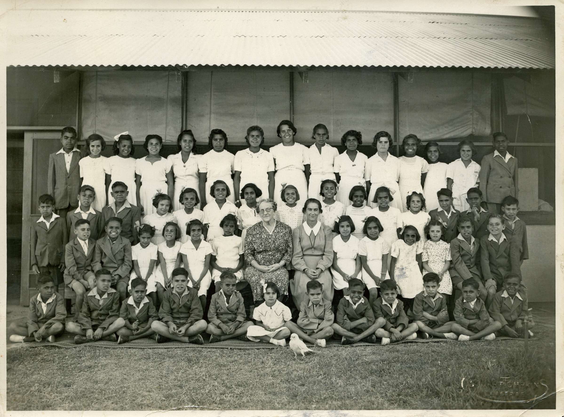 St Marys, the Anglican Church Hostel for Aboriginal children. Seated in the uniform with the white collar is Sister Eileen heath (decd). Seated next to her is Mrs. Schroder, who helped Sister Eileen run the home. The tallest girl in the back row is Rona Glynn, who would go on to work as a teacher at Hartley Street School in Alice Springs before studying nursing in Melbourne. The Rona Glynn preschool is named in her honour. Freda Glynn (Rona's sister) is standing to Rona's left. Freda Glynn was a co-founder of CAAMA and Imparja.